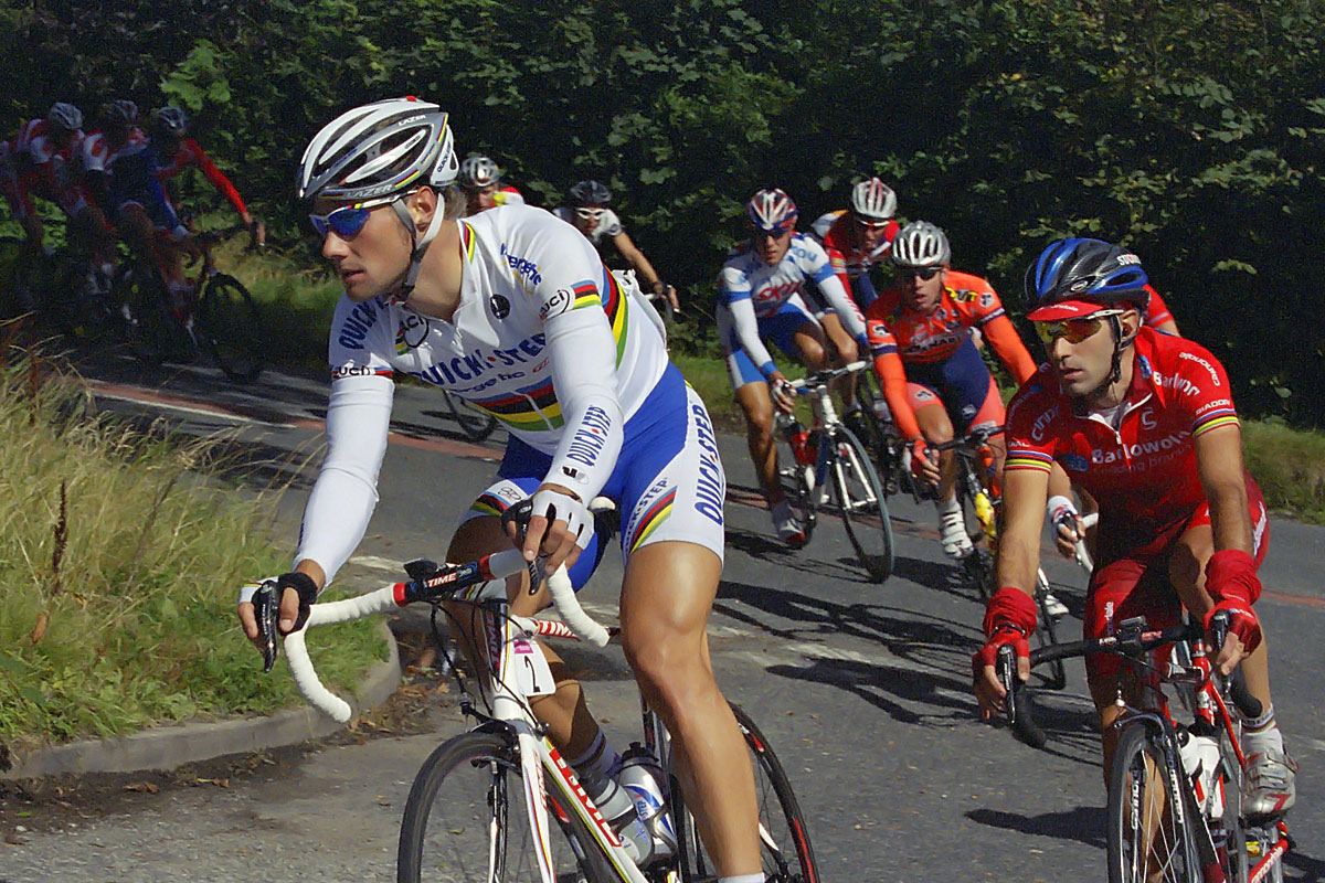 Reigning World Road Race Champion, Tom Boonen, heads towards the finish of Stage 1 of the 2006 Tour of Britain in Castle Douglas.